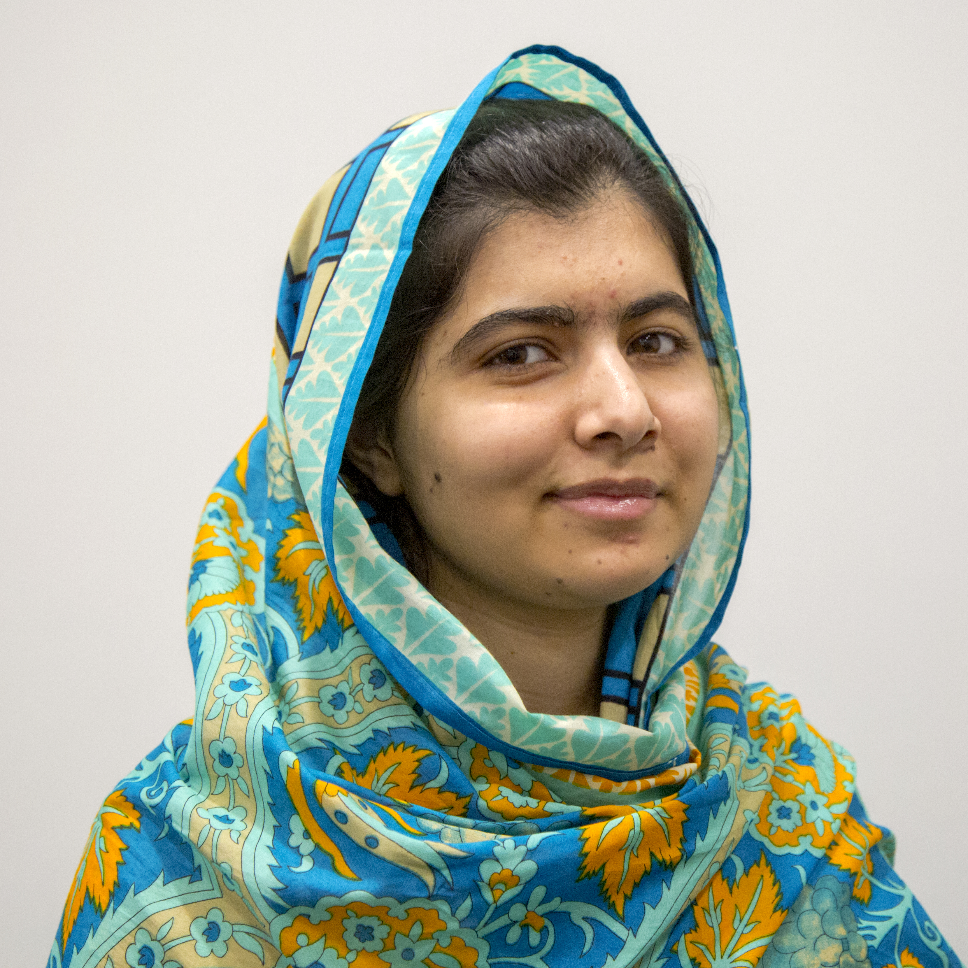 Education campaigner Malala Yousafzai joined International Development Secretary Justine Greening in London to discuss the importance of getting girls through school around the world. Over 60 million girls in the world are out of school. Malala - a Nobel Peace Prize winner - is leading a drive to ensure all girls get access to 12 years of free, safe, quality primary and secondary education. Joining Malala at the recent Global Goals festival in New York, Justine Greening said: "I don’t believe that any country can develop if half its population is left behind. "It’s about voice, choice and control for girls and women. That starts with education. "I’m committing that the UK will help 6.5 million more girls to go to school over the next 5 years". Read more about the UK’s support for girls in school at: Find out more about Malala’s campaign to get all girls an education at: Picture: Simon Davis/DFID Free-to-use photo This image is posted under a Creative Commons - Attribution Licence, in accordance with the Open Government Licence. You are free to embed, download or otherwise re-use it, as long as you credit the source as 'Simon Davis/DFID'.